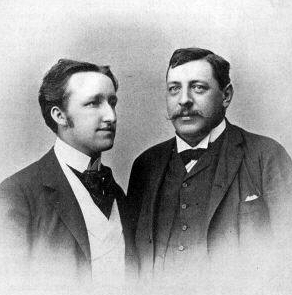 Siegfried Wagner (1869-1930) (left) and Felix Mittl (1856-1911) (right).